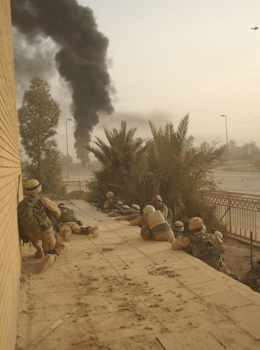 Soldier from B company 2/325th watch an Iraqi paramilitary unit's headquarters burn during an assault on the city's north side April 4th 2003.